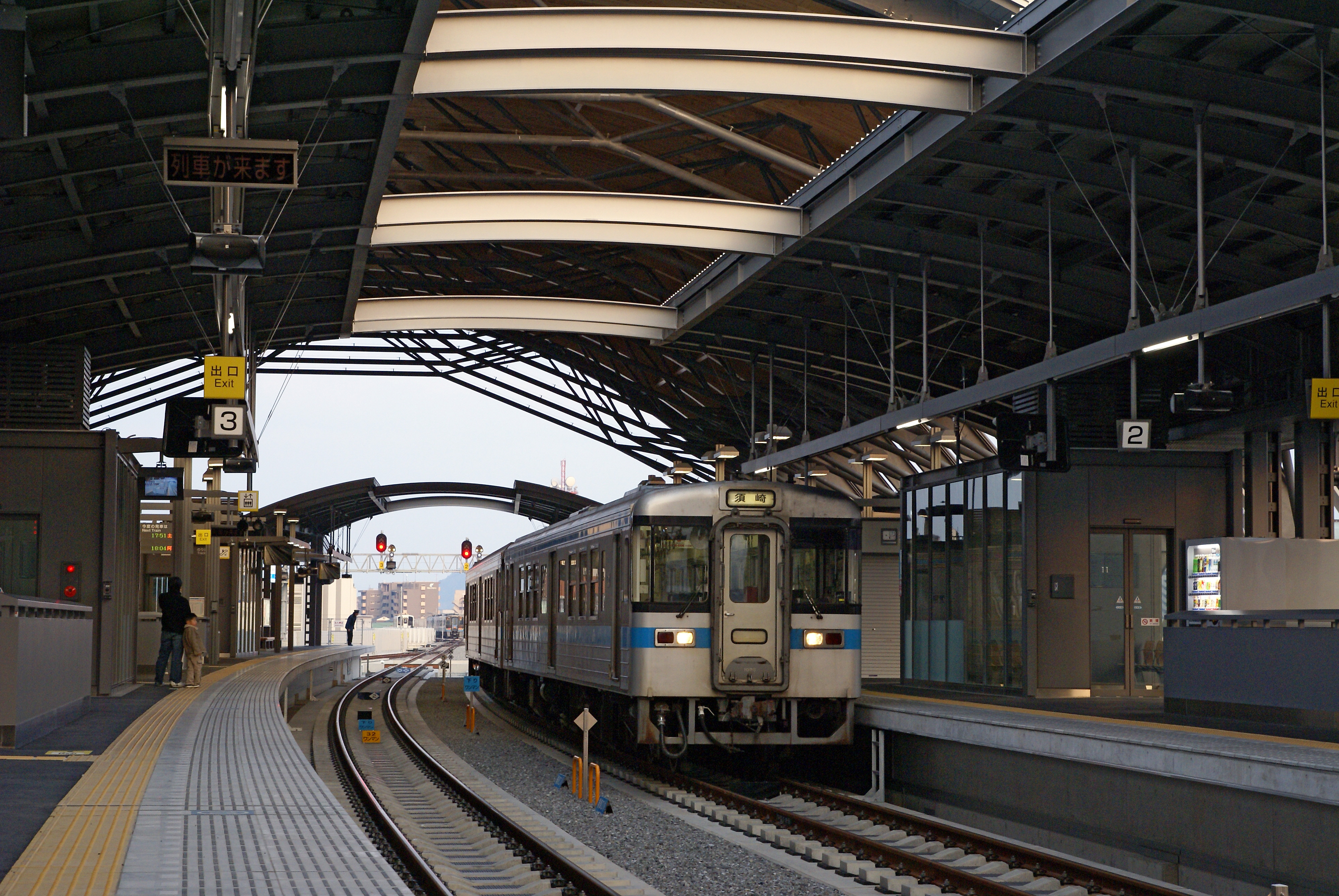 Kochi Station in Kochi, Kochi prefecture, Japan